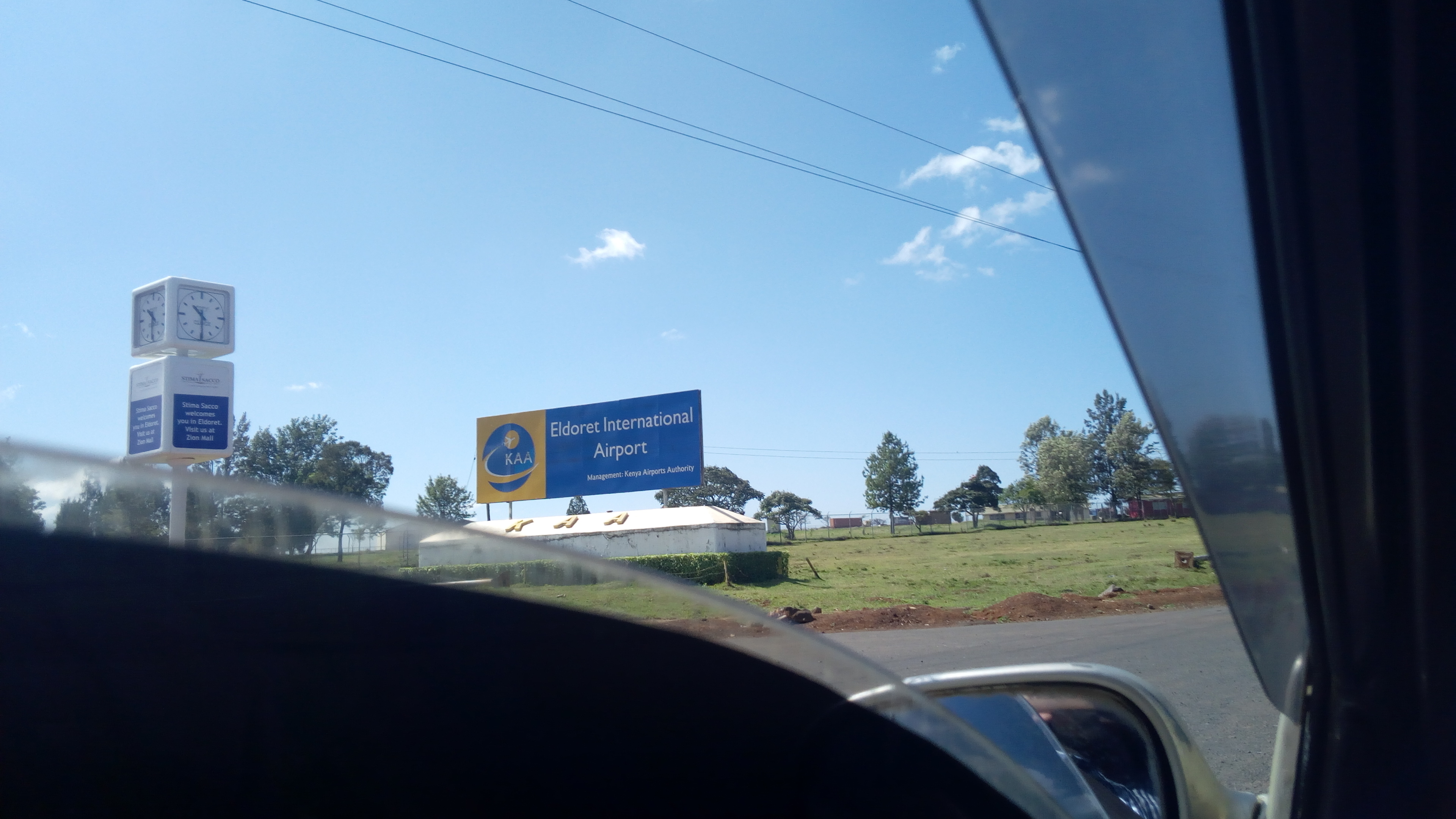 Sign to Eldoret International Airport near the gate of the airport along the Eldoret-Kisumu highway.